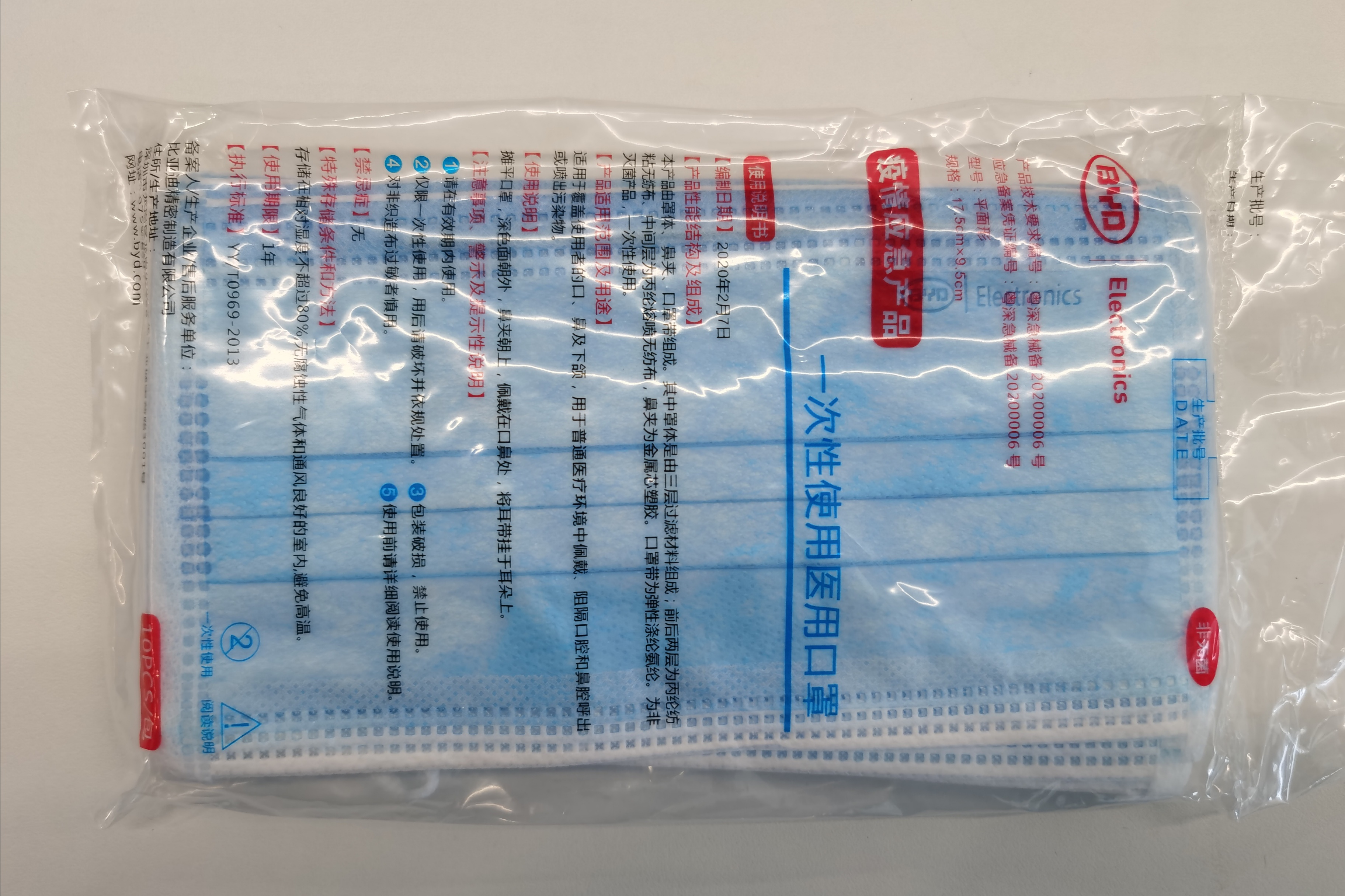 Single-use medical masks produced by BYD Electronic. These medical masks conform to the Chinese standard YY/T 0969–2013.